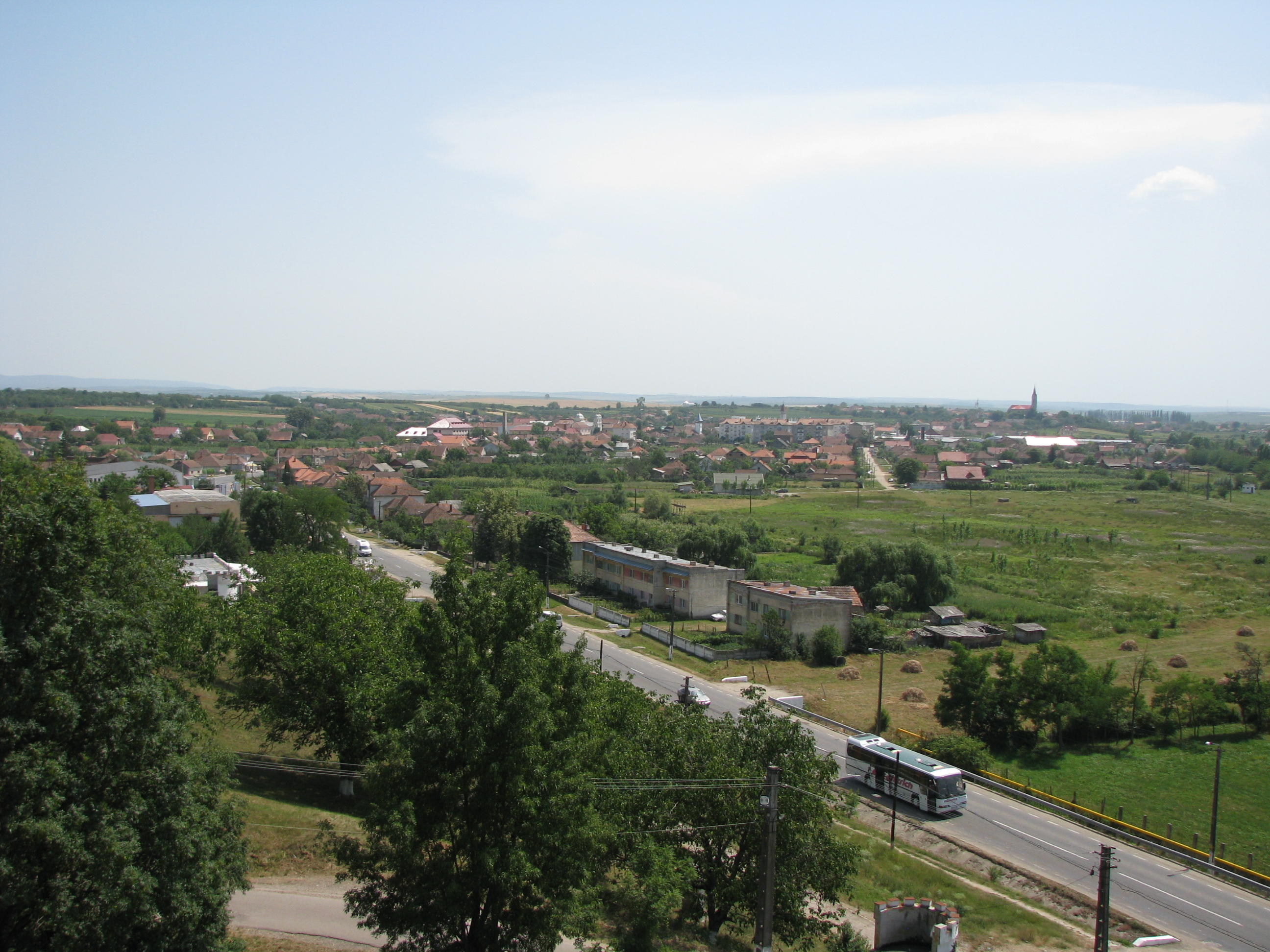 Ardud Fortress, 2012